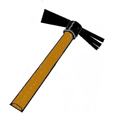 Drawing of a mattock tool.